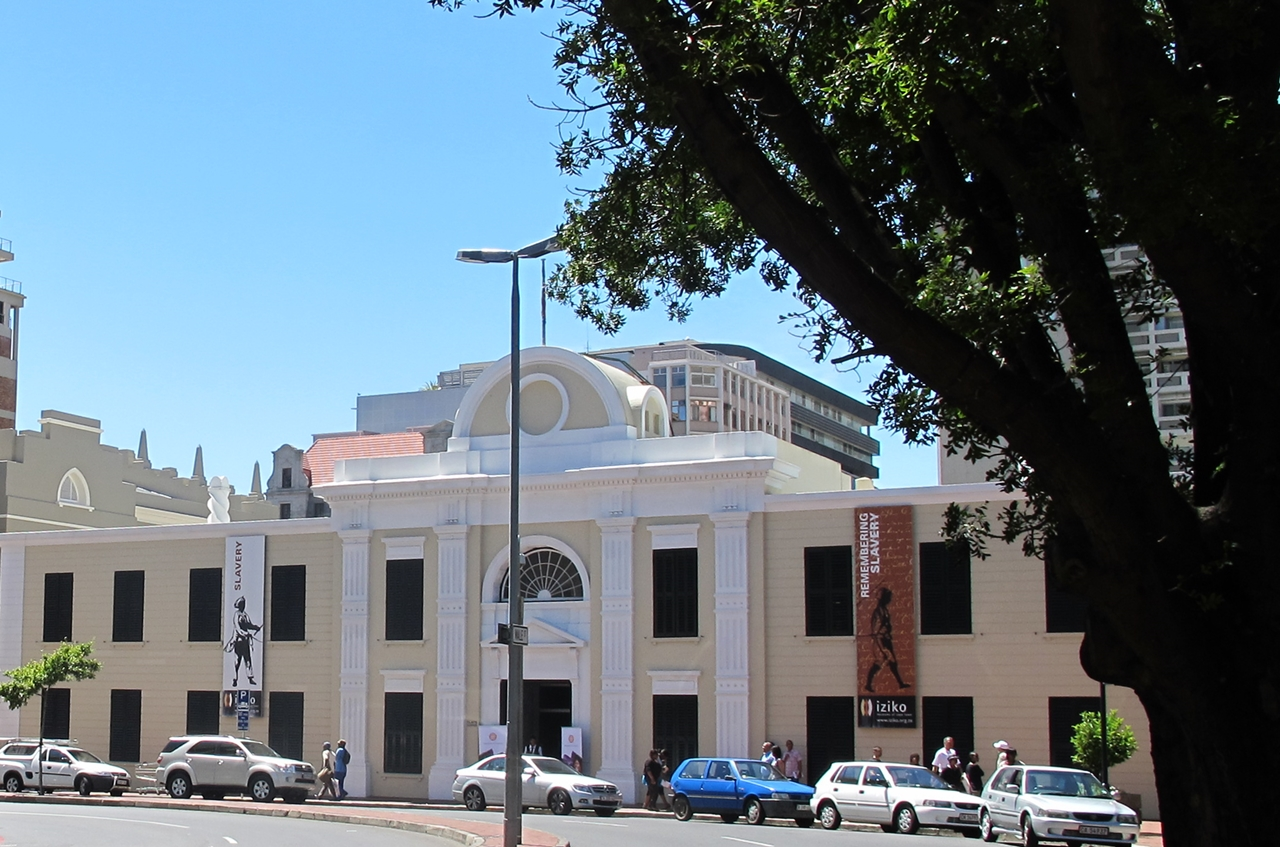 Old Slave Lodge, Adderley Street, Cape Town. This building was originally completed in 1680 as the Dutch East India Company's Slave Lodge. It was converted for use as government offices in the 19th century by Thibault (Inspector of Government Buildings), Anreith (sculptor) and Schutte (contractor). This media shows a South African Protected Site with SAHRA file reference 9/2/018/0177.